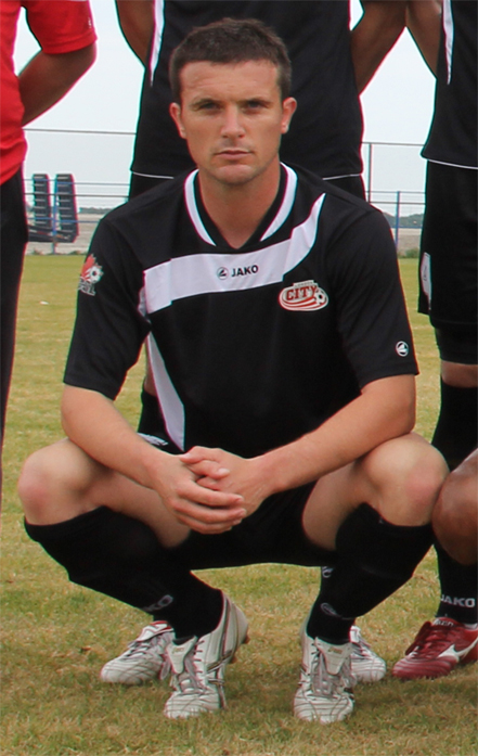 Nenad Nikolić during his time playing for Canadian Soccer League side London City.